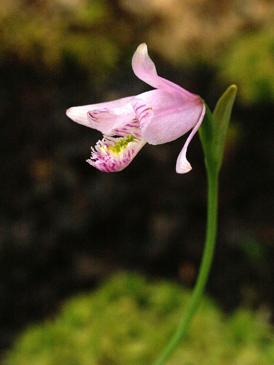 Pogonia ophioglossoides - flower